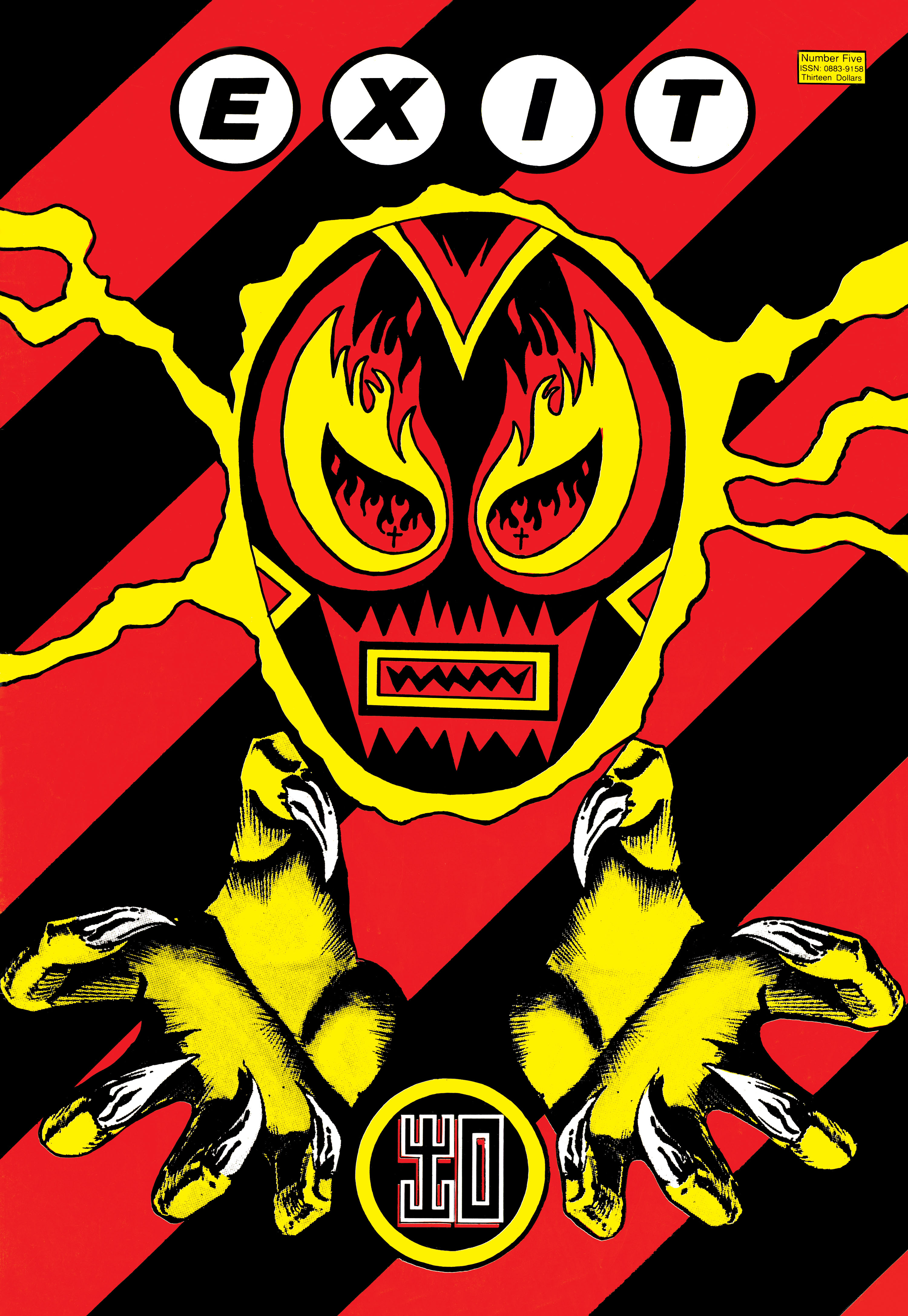 Cover Art by J.G. Thirlwell, 1991